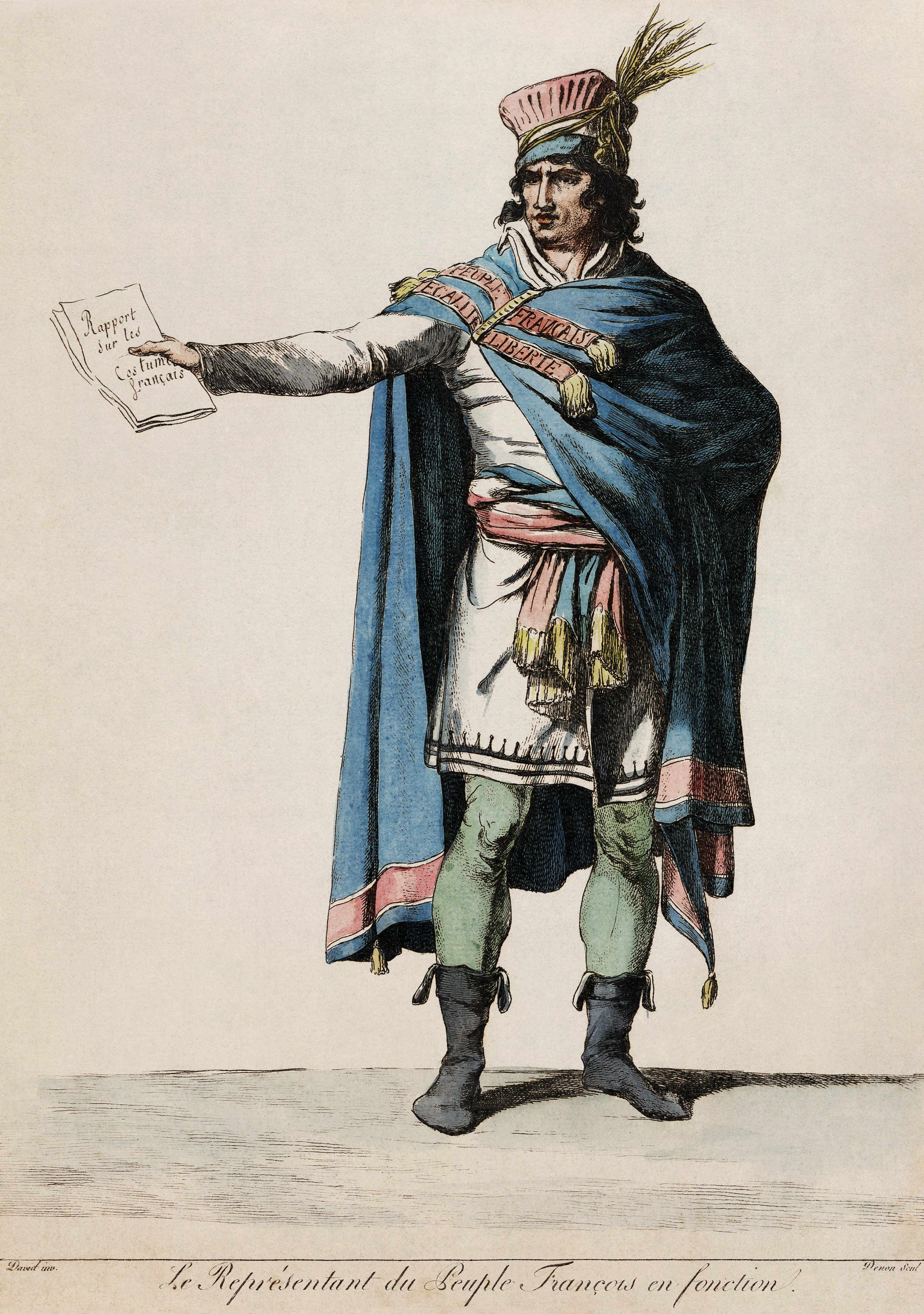 Hand-coloured etching showing a male figure modeling the costume designed by David for legislators. "Le représentant du peuple François en fonction / David inv. ; Denon scul."